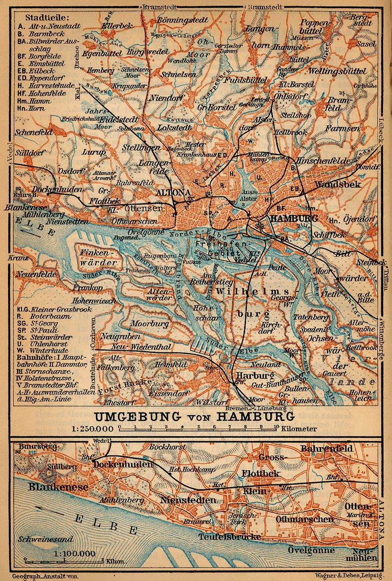 Map hamburg environs 1910(see discussion, whether it's 1910 or 1915)